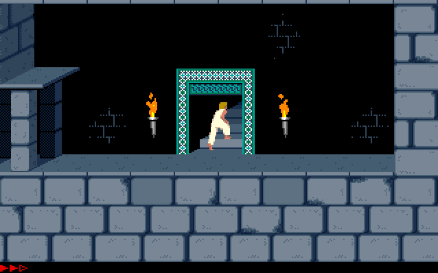 Screenshot from the video game (own work).